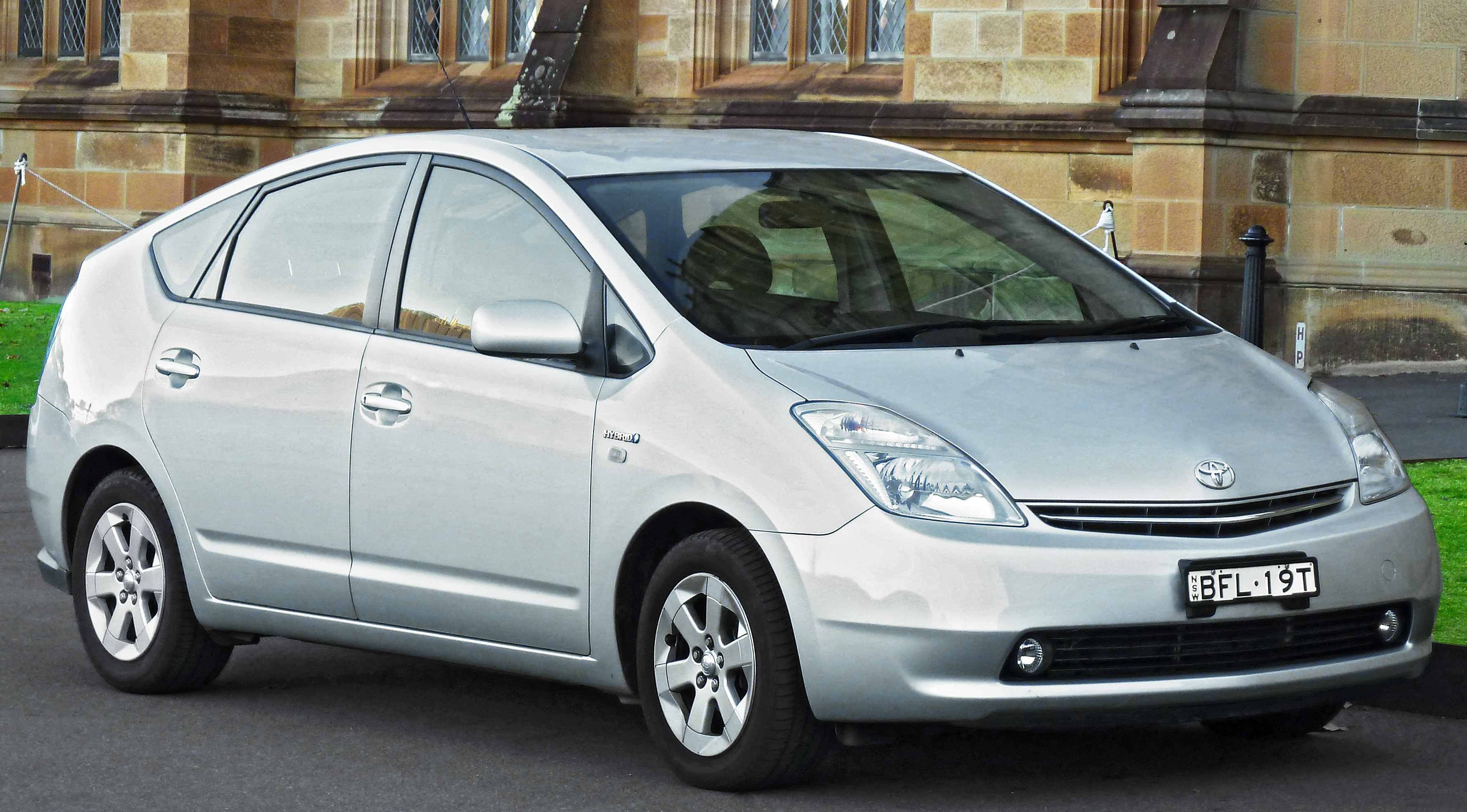 2008 Toyota Prius (NHW20R) liftback. Photographed in Camperdown, New South Wales, Australia.